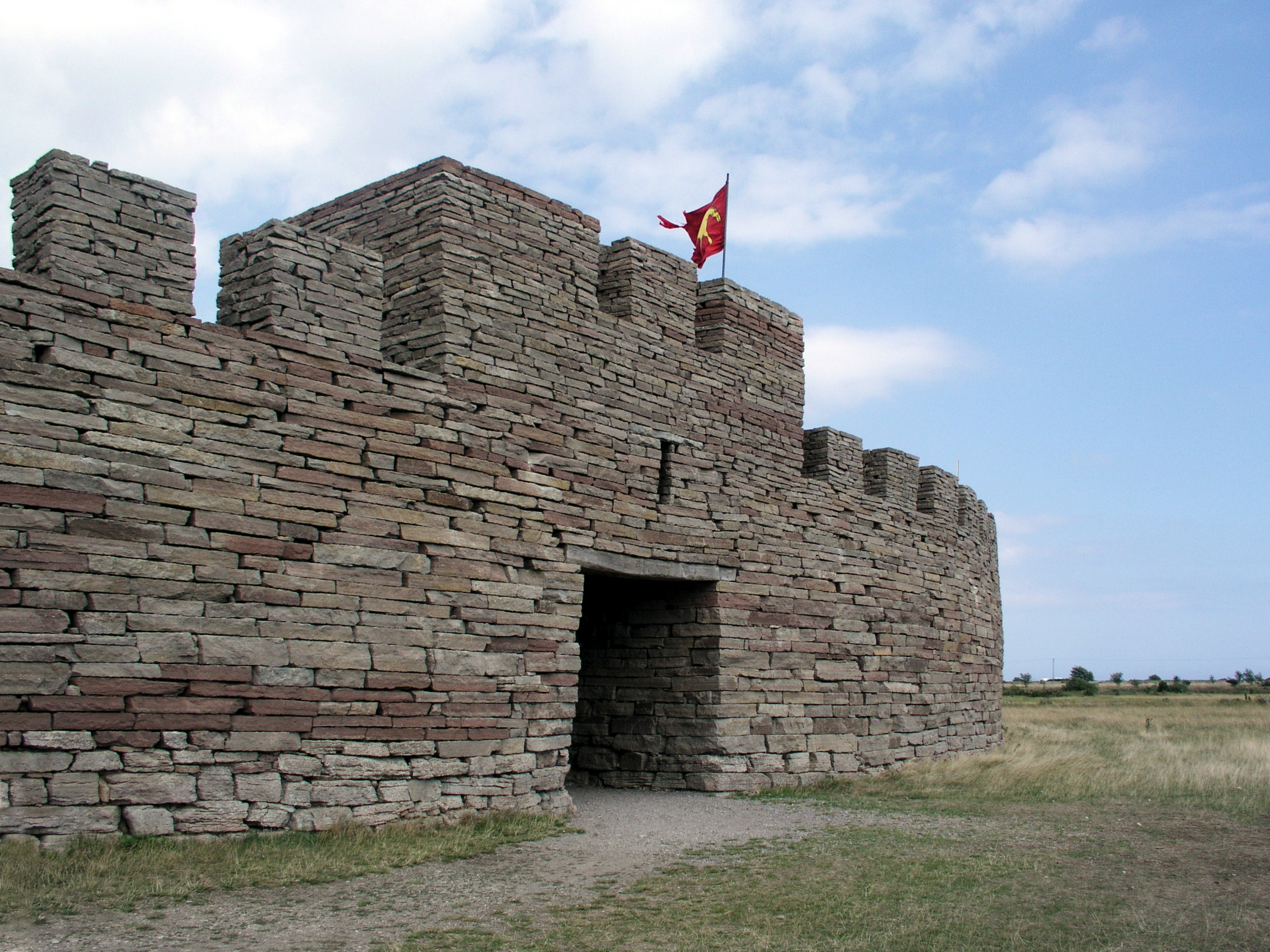 Eketorp fornby / Eketorp ancient village